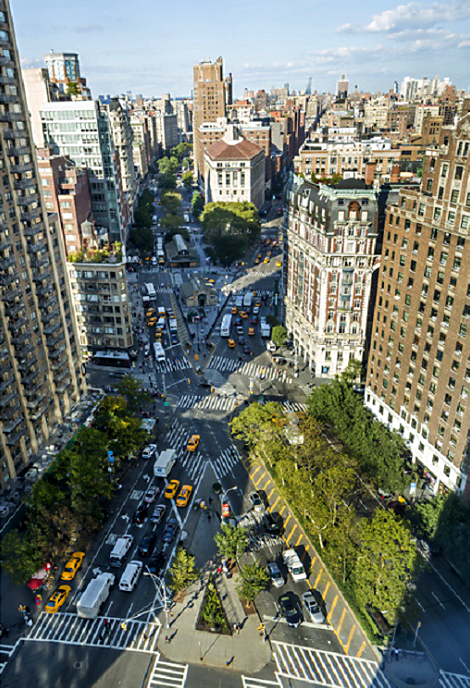 Broadway in Manhattan looking no. from Sherman Sq. to W. 72 St and Verdi Sq., taken from a high-rise nearby.